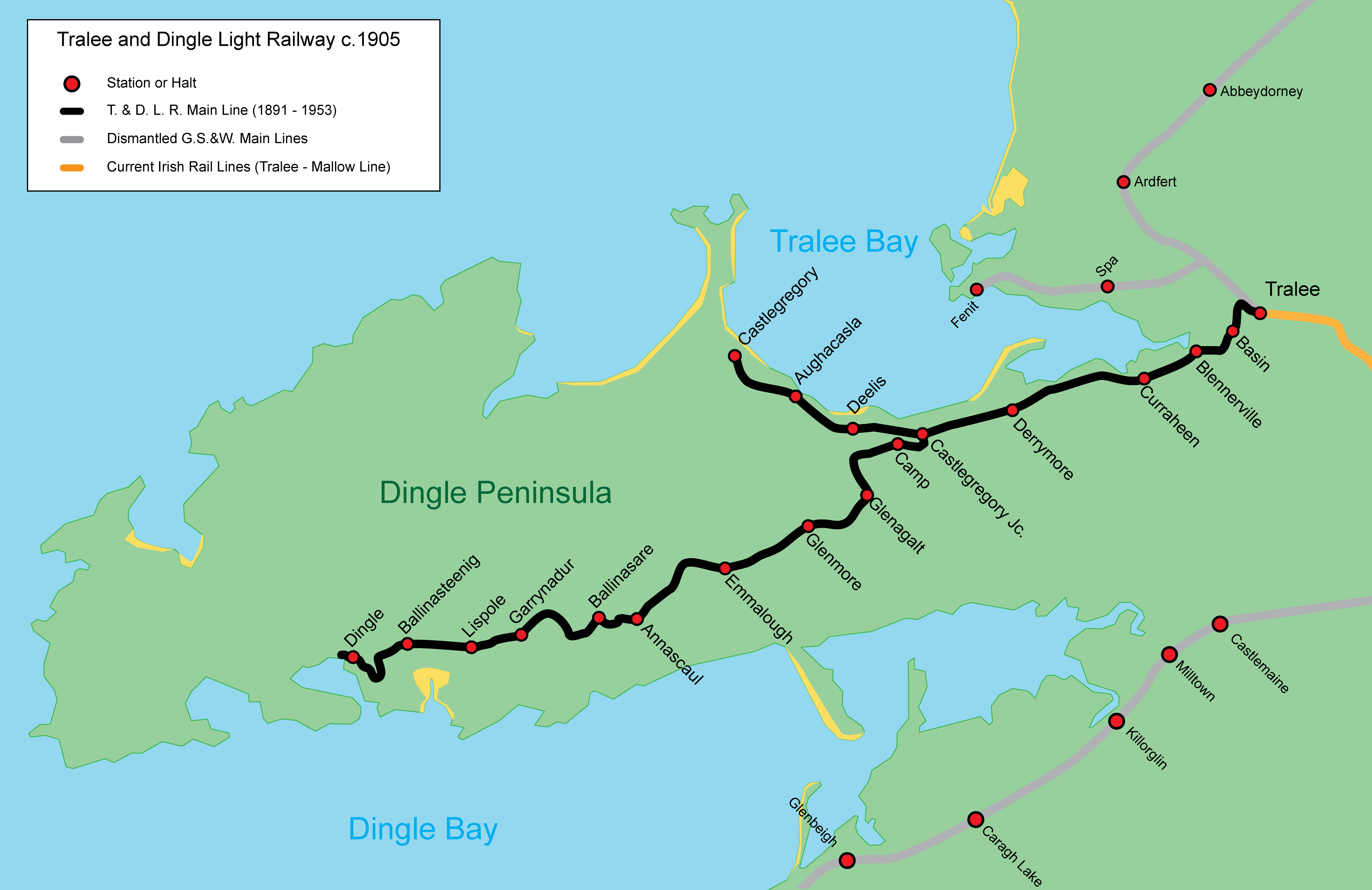 Map of the Tralee and Dingle Light Railway c. 1905